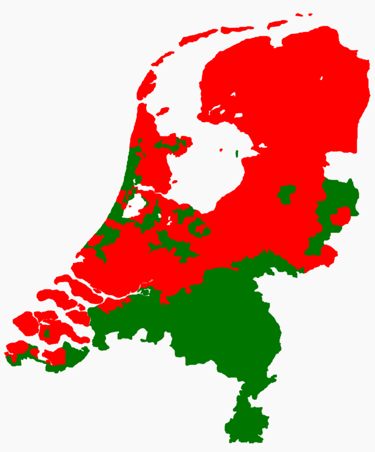 Predominant religion in the Netherlands before the rise of secularism and the arrival of immigrant faiths. Green: Catholicism, Red: Protestantism.